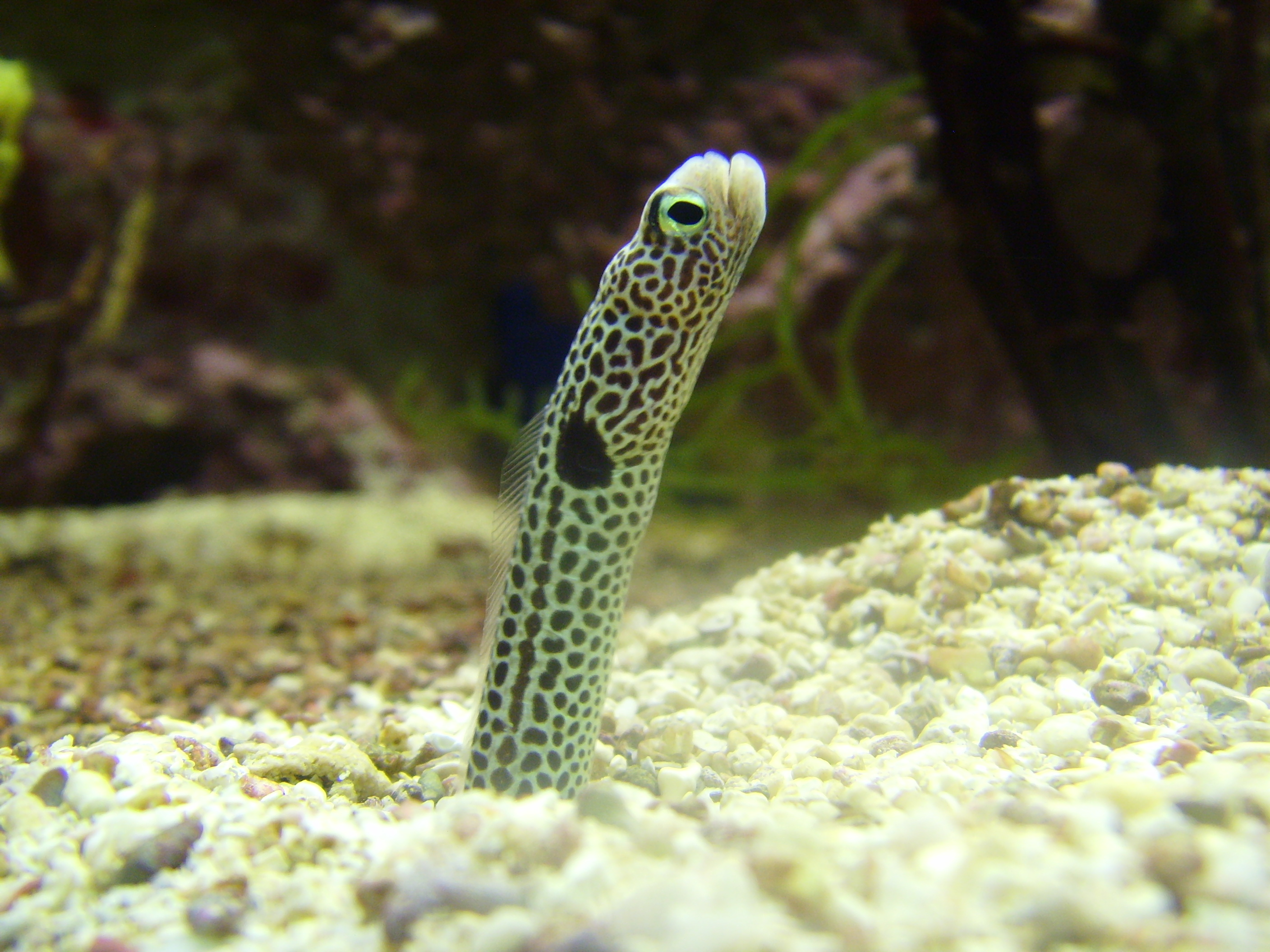 Taenioconger hassi (= Heteroconger hassi)